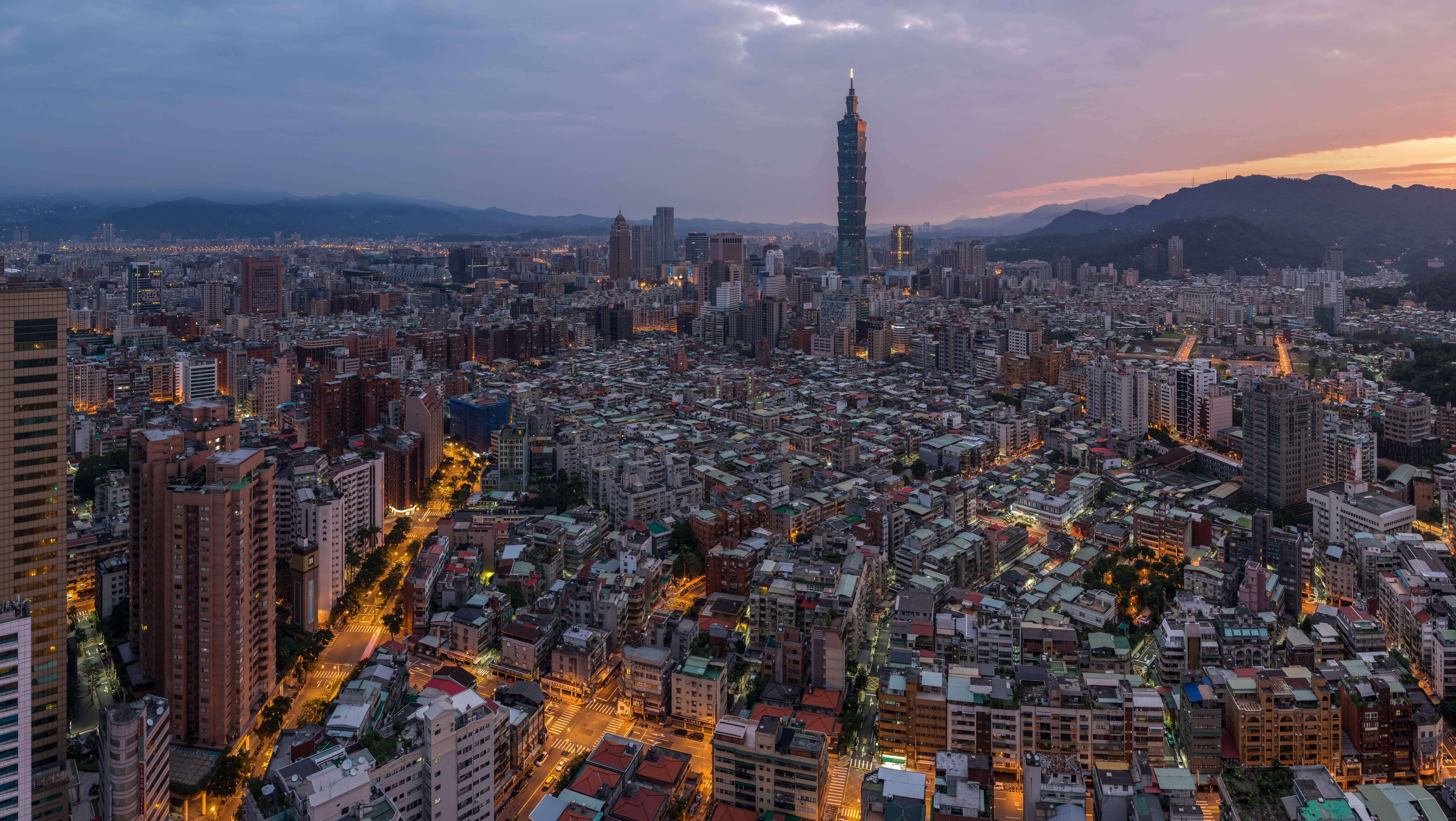 Taipei sunrise panorama. This image was stiched in Hugin using panini general projection.